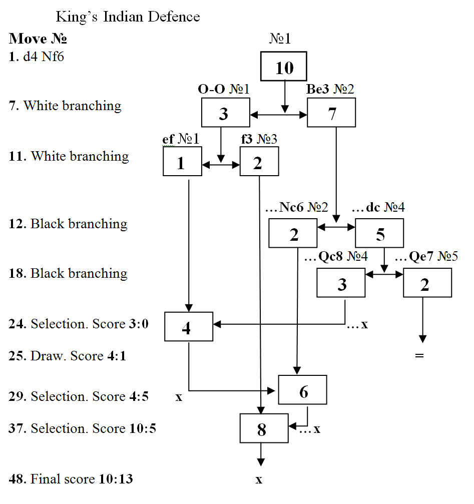 SCHEME 4. A Business Chess game tree (without chess Passing).